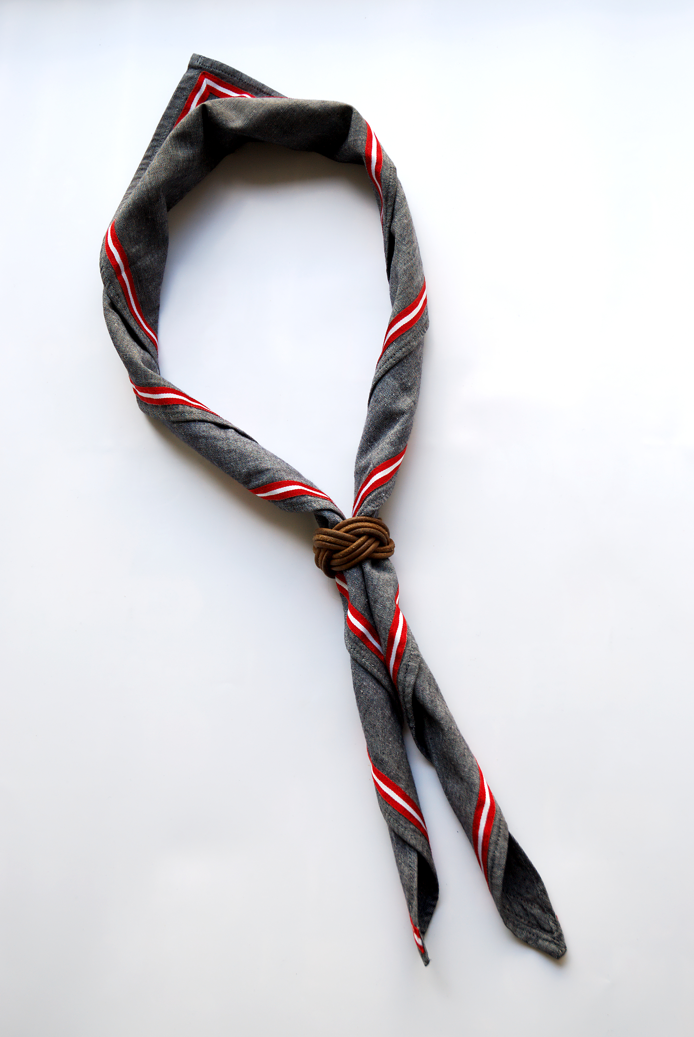 Neckerchief for abroad of the Pfadfinder und Pfadfinderinnen Österreichs (Austrian Boy Scouts and Girl Guides). It is used by all its members when they stay abroad.